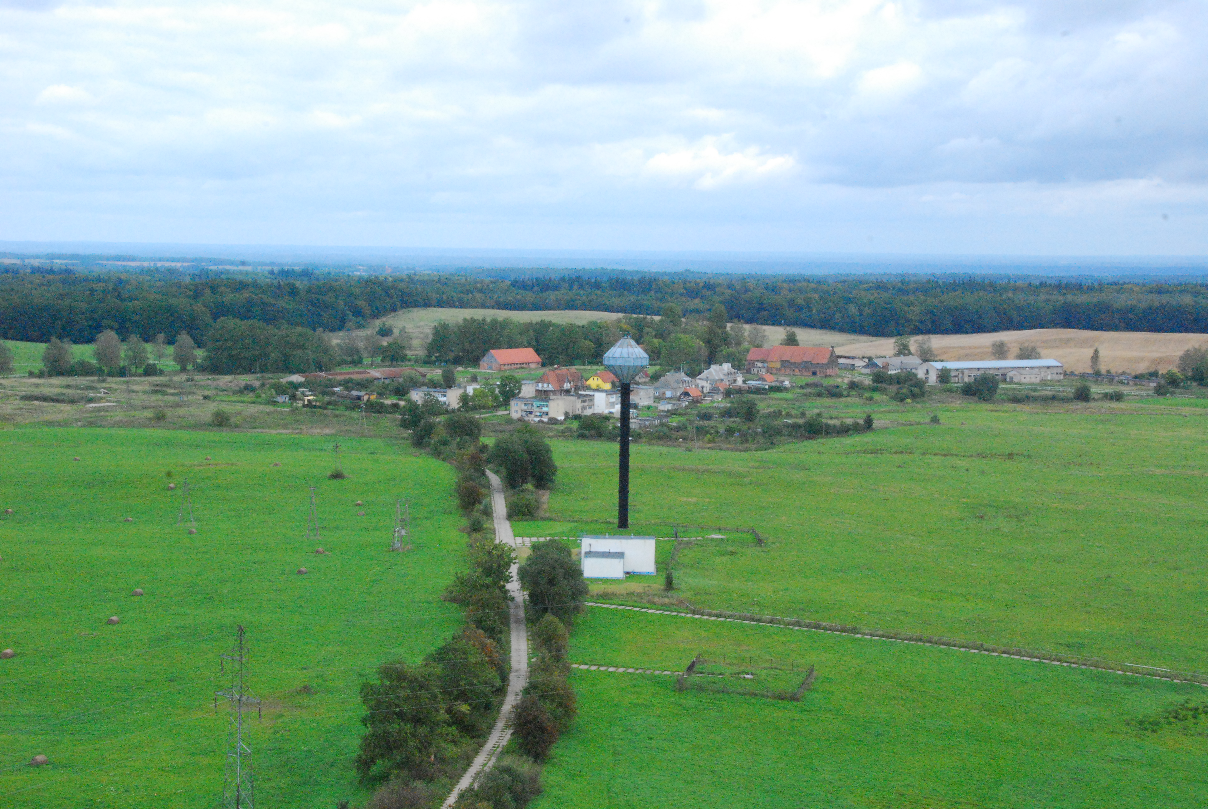 Polish village Pagórki (Warmian-Masurian Voivodeship) with water tower and foundations for wind turbines of a future wind park. View from the magnus effect wind turbine